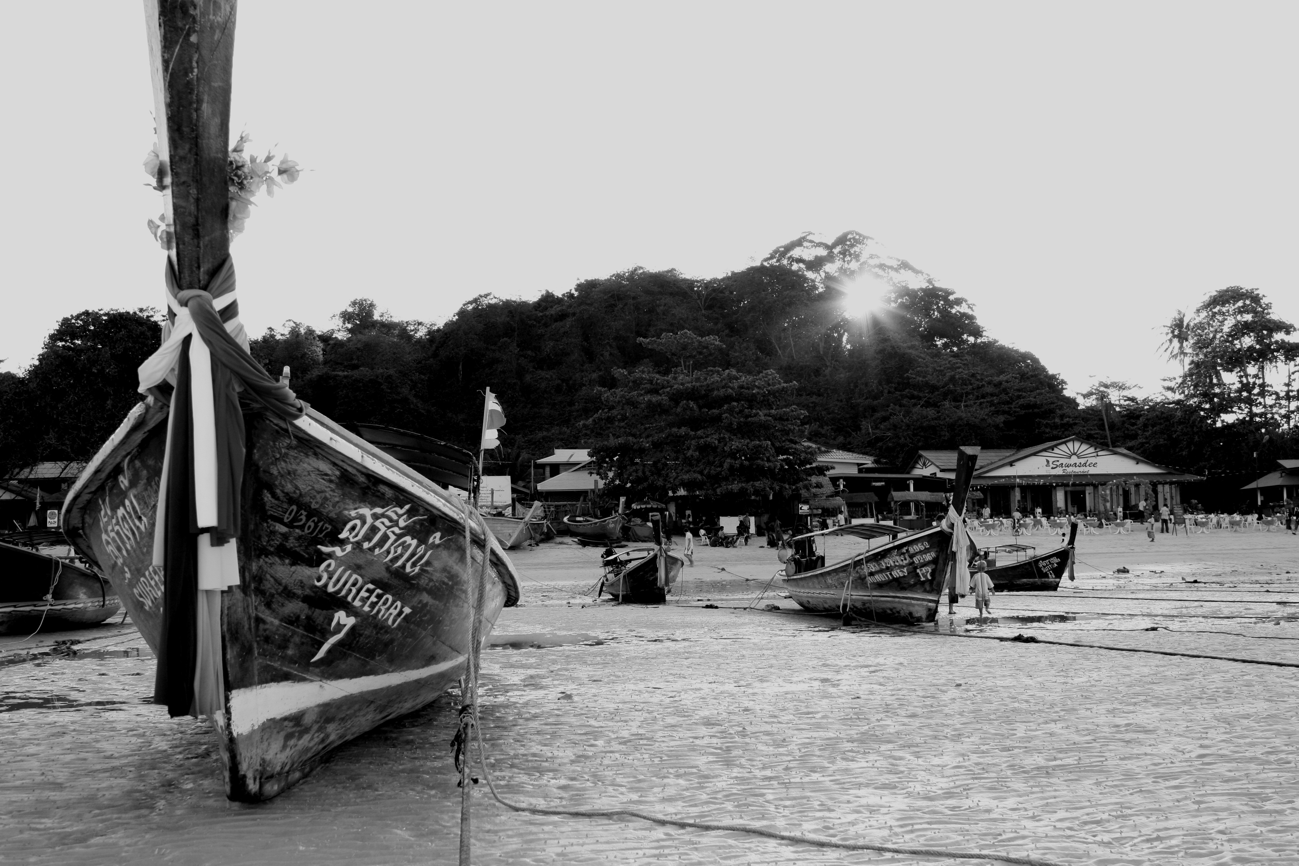 Sunset over a gypsy boat on Koh Phi Phi Island